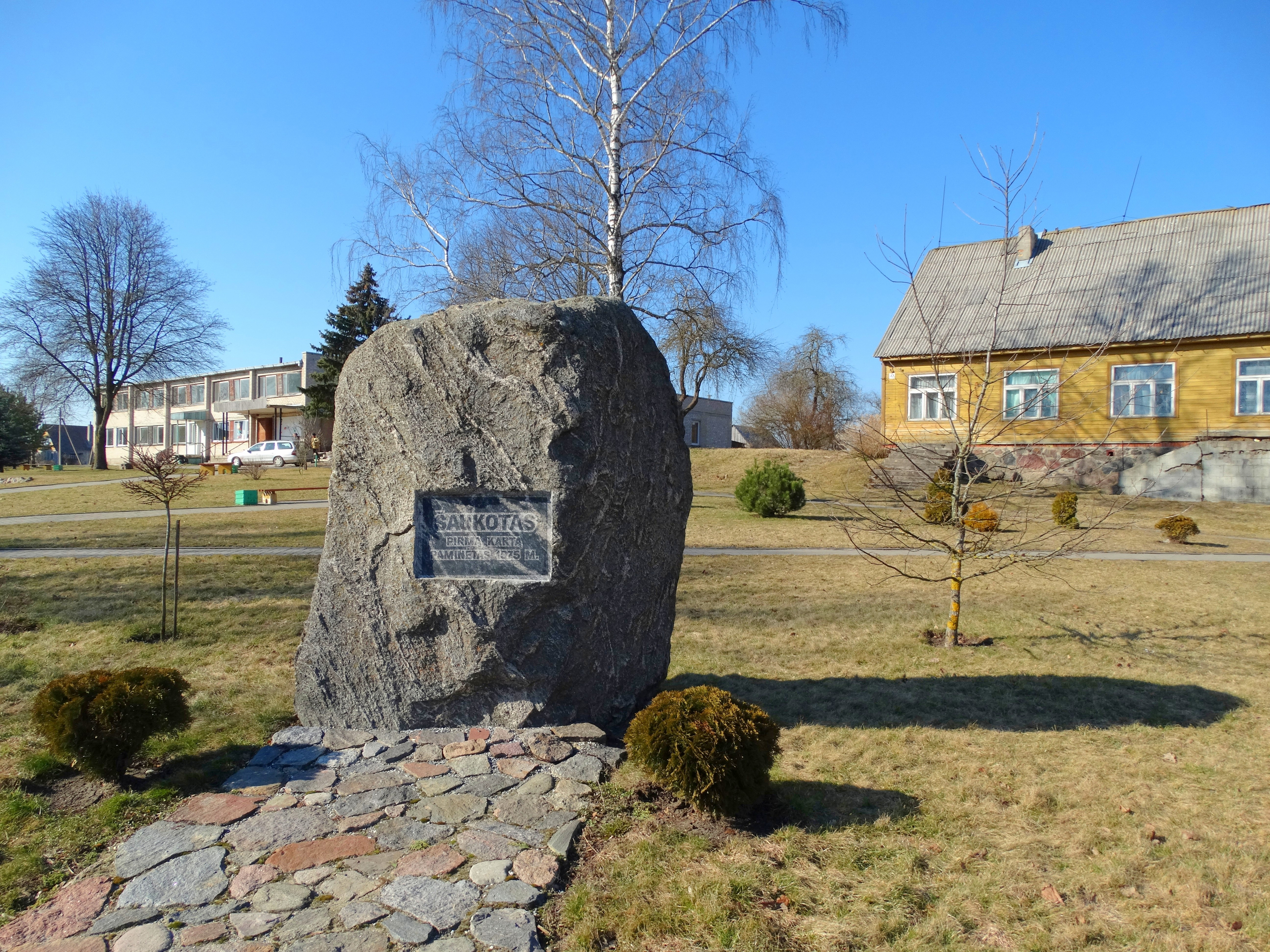 Šaukotas, Radviliškis district, Lithuania